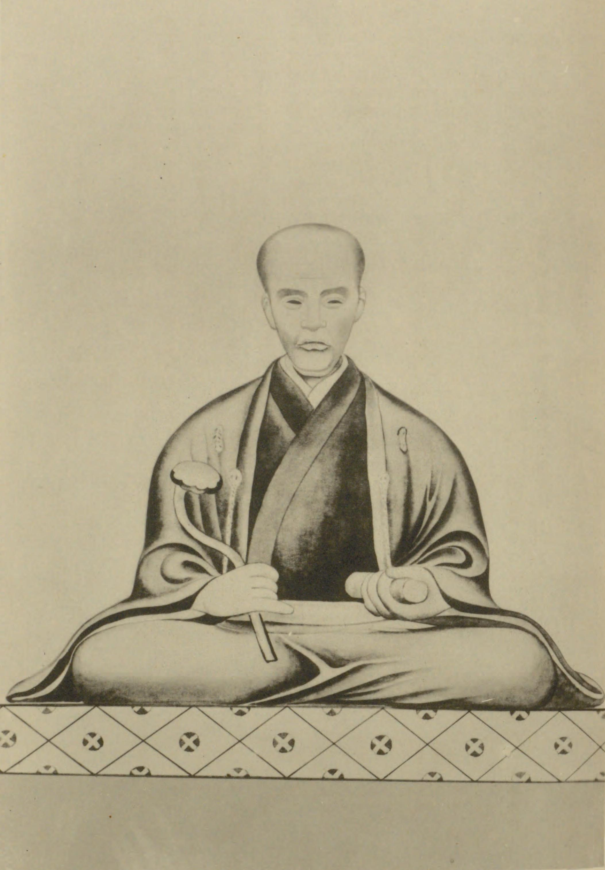 Portrait of Tachibana Nankei